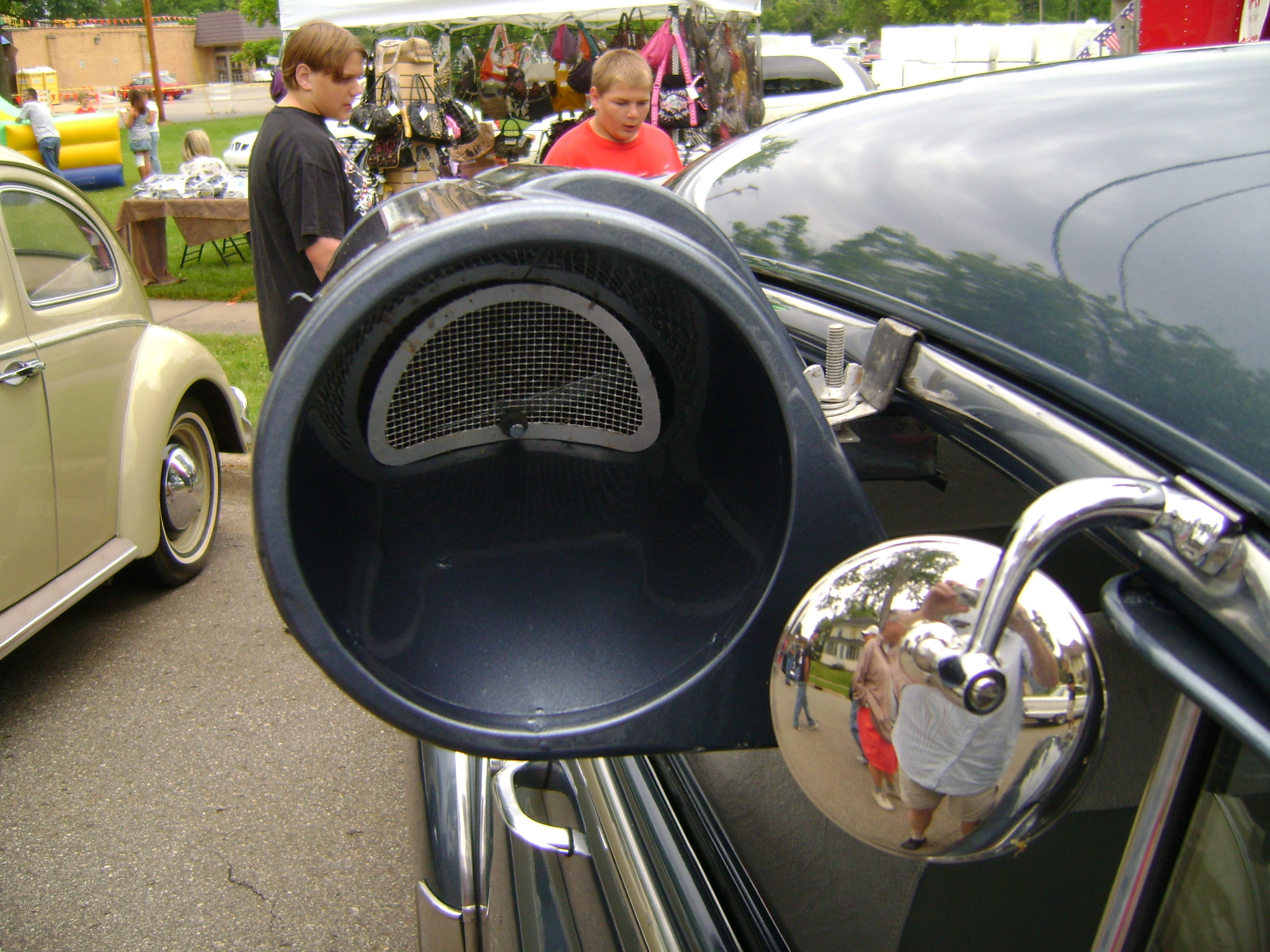 Car cooler front view